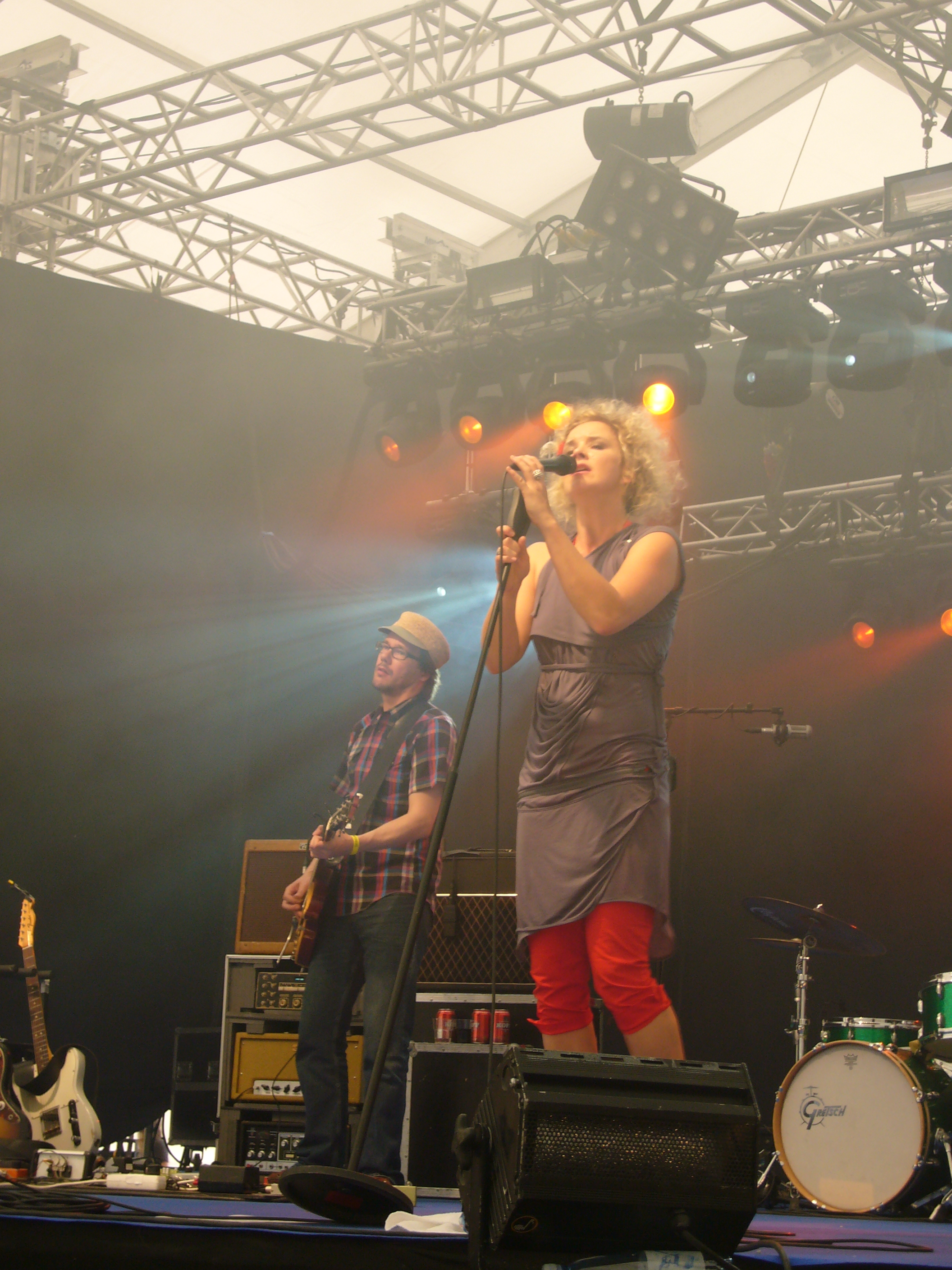 Finnish singer Jonna Tervomaa performing at Ruisrock 2008 rockfestival.